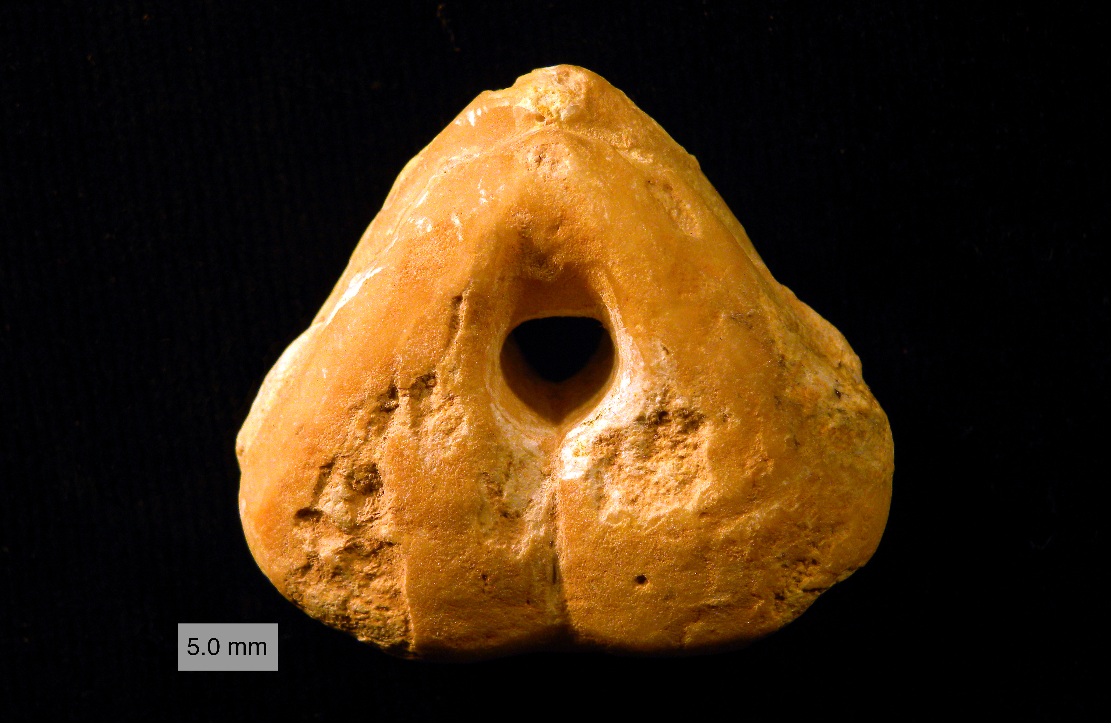 Pygites diphyoides (d'Orbigny, 1847) from Hauterivian (Lower Cretaceous) of Cehegin, Murcia, Spain. From the collections of Clive Champion.